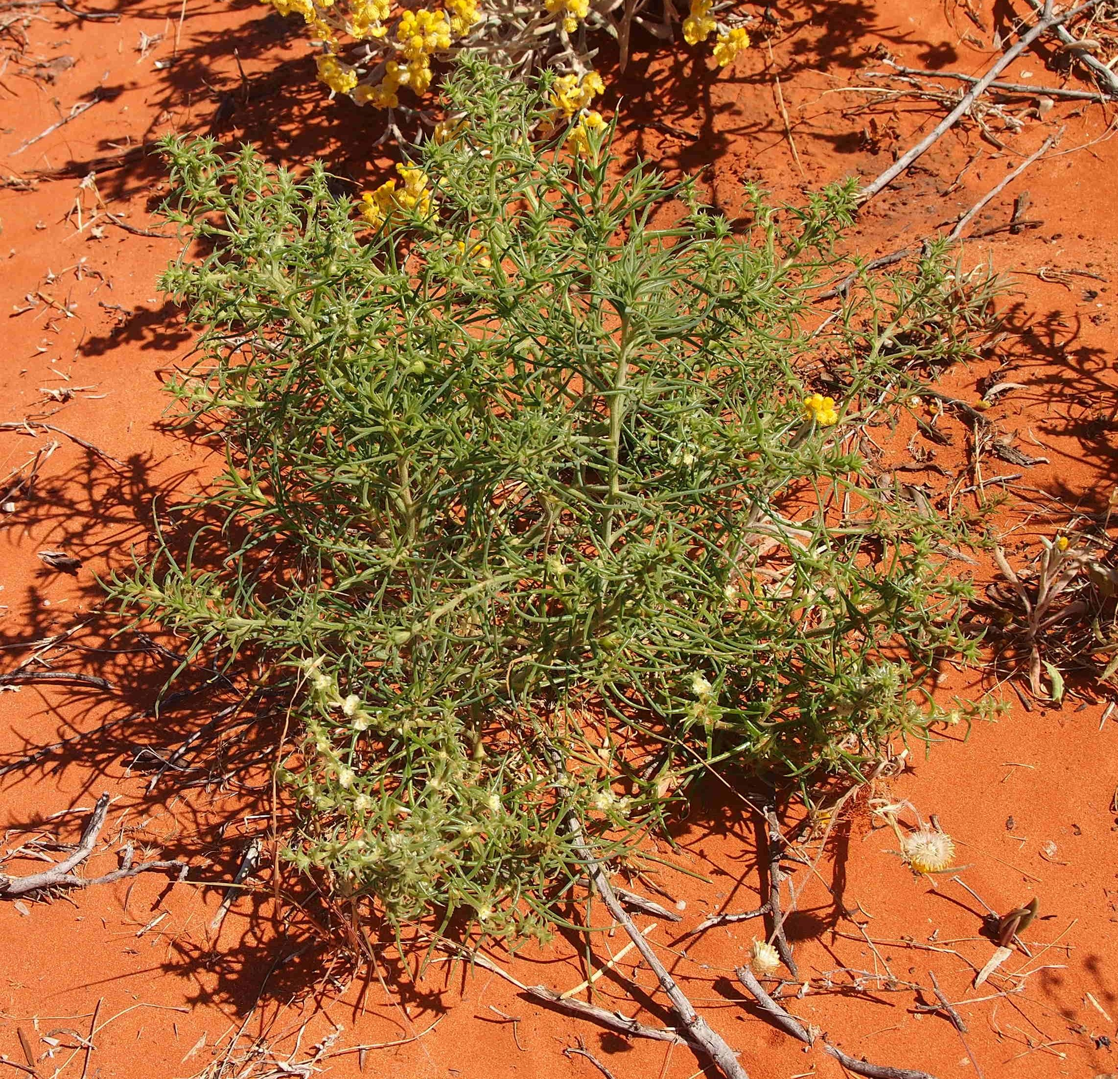 Salsola australis